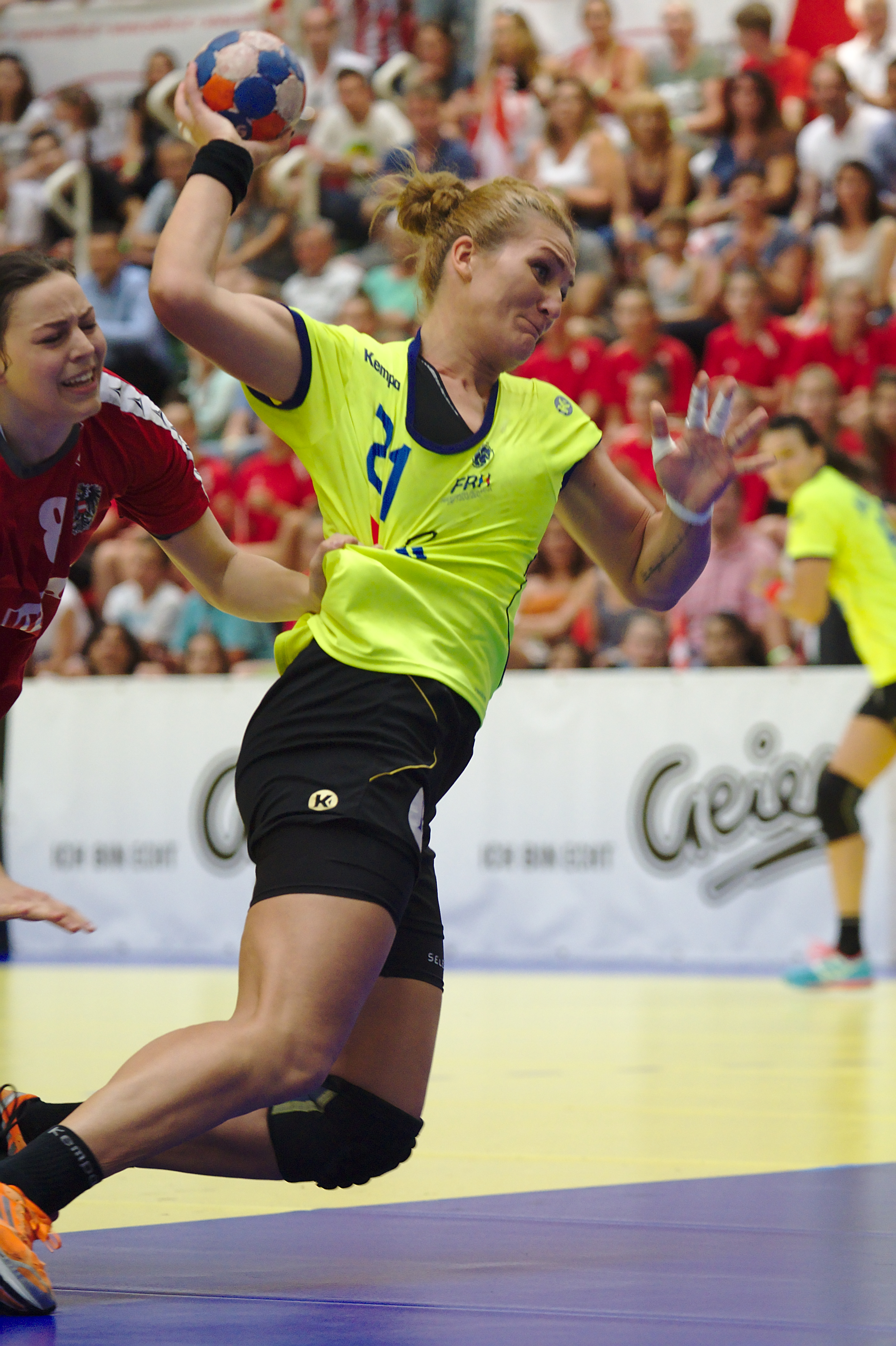 2017 Women's World Championship Qualification Europe - Phase 2 Play-Off. Bild zeigt: Crina Elena Pintea